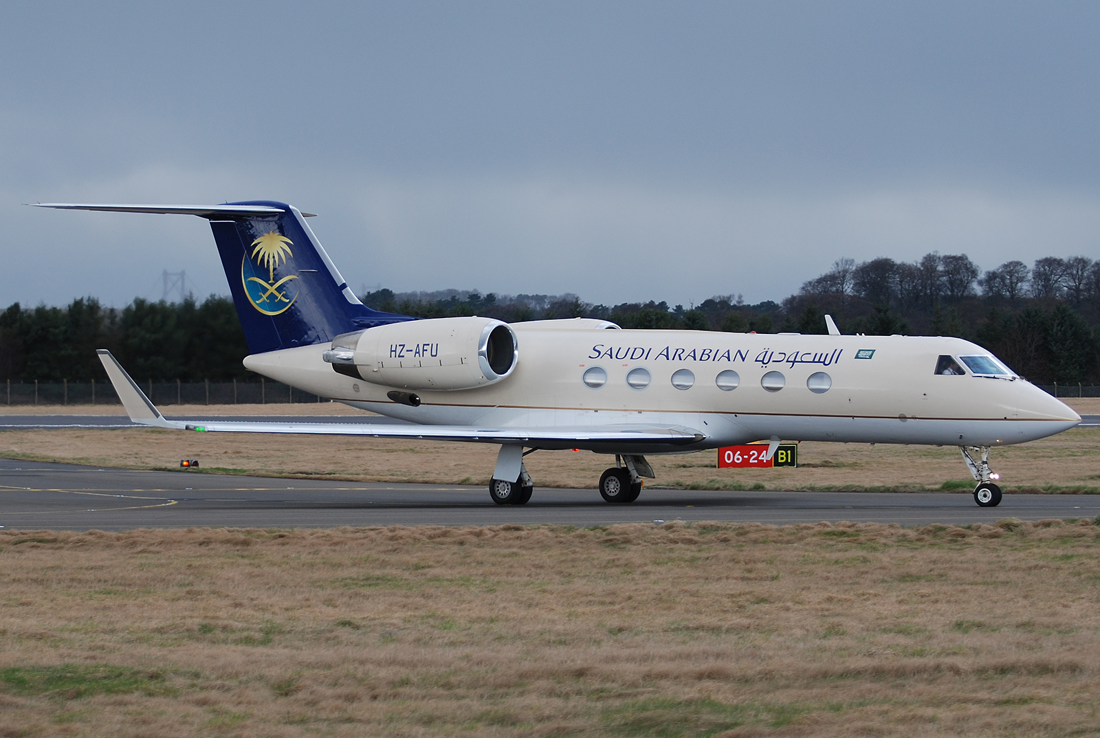 Saudi Arabian Airlines Gulfstream Aerospace Gulfstream IV HZ-AFU at Edinburgh Airport.